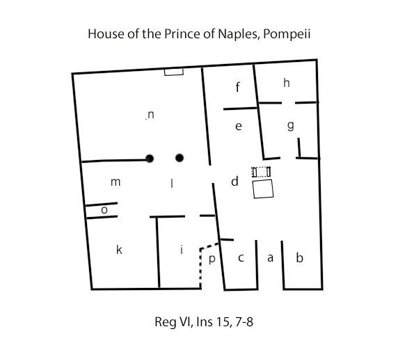 House of the Prince of Naples floor plan in Pompeii with room letter designations